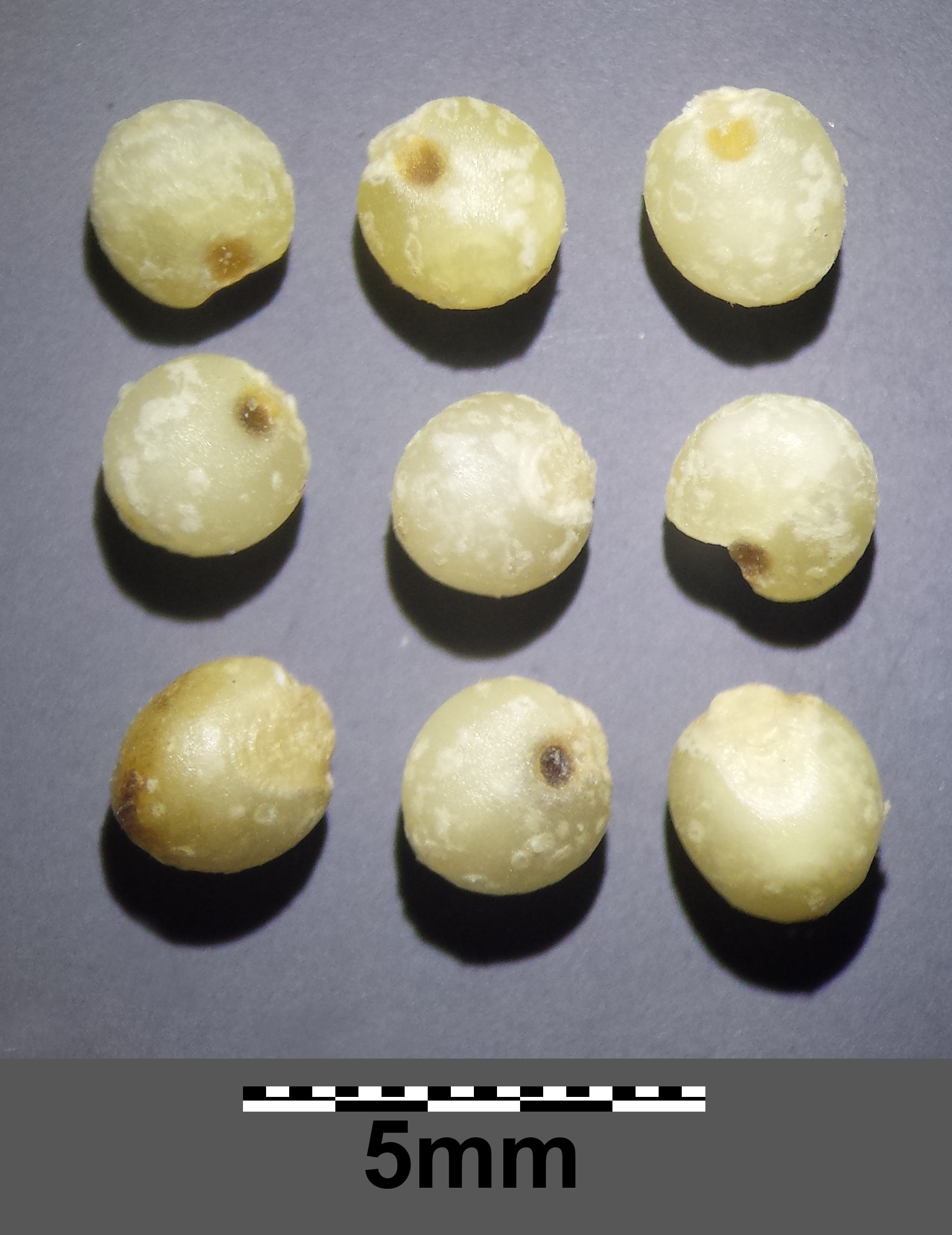 Caryopses (lemma and palea removed, peeled) Taxonym: Panicum miliaceum subsp. miliaceum ss Fischer et al. EfÖLS 2008 ISBN 978-3-85474-187-9 Location: next to Wiener Neustadt (leg. H. Rainer 2017-07-25) Habitat: field (cultivated)